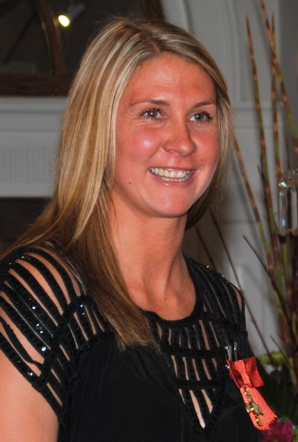 Casey Williams (later Kopua), after her investiture as ONZM, for services to netball, at Government House, Wellington, on 4 August 2011.